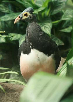 MaleoBahasa Indonesia: Maleo Senkawor